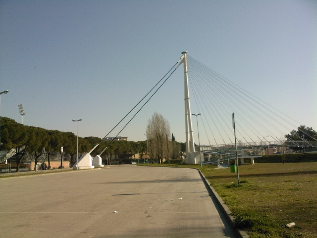 Bridge in front of Empoli's Stadium